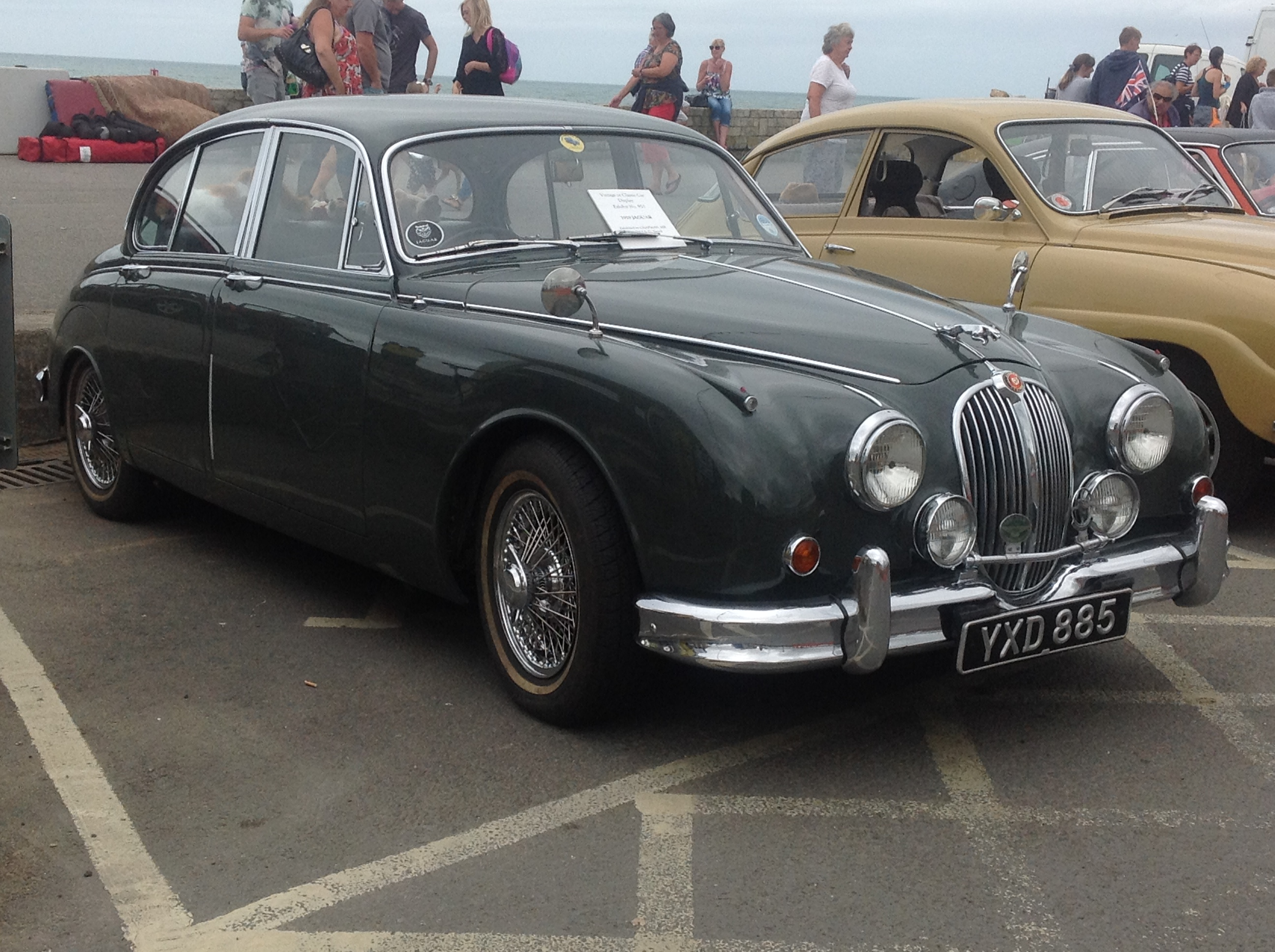 "West Bay Day", 7 July 2016